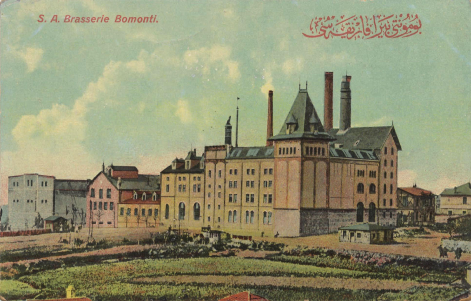 The first brewery in Turkey was started in 1890 by two brothers from Switzerland, the Bomonti brothers. In 1902 they built a new facility in the southern part of Istanbul which still stands there today. It is situated in the Bomonti district, which of course takes it name from the factory.